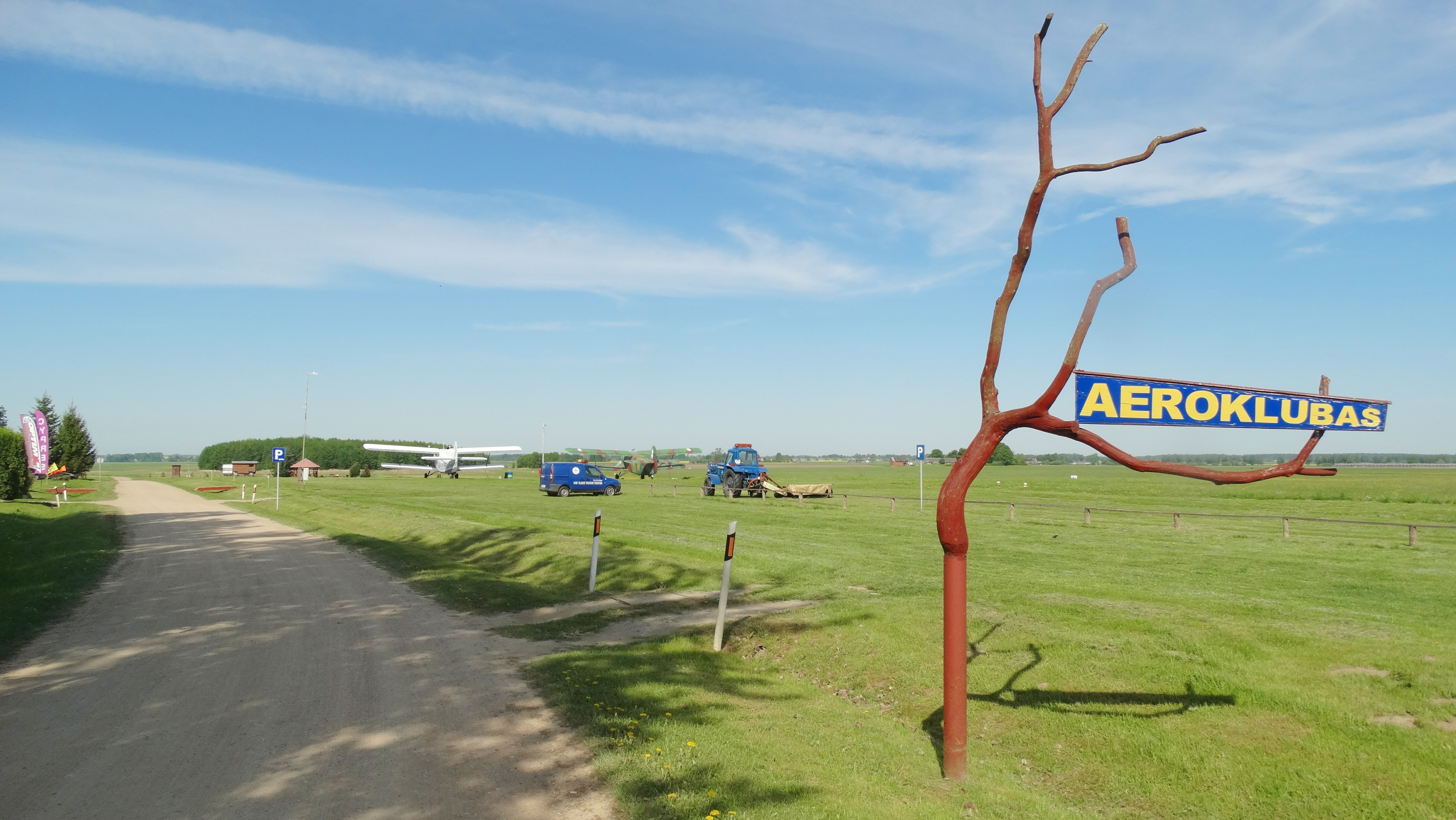 Sasnava aerodrome, Marijampolė Municipality, Lithuania